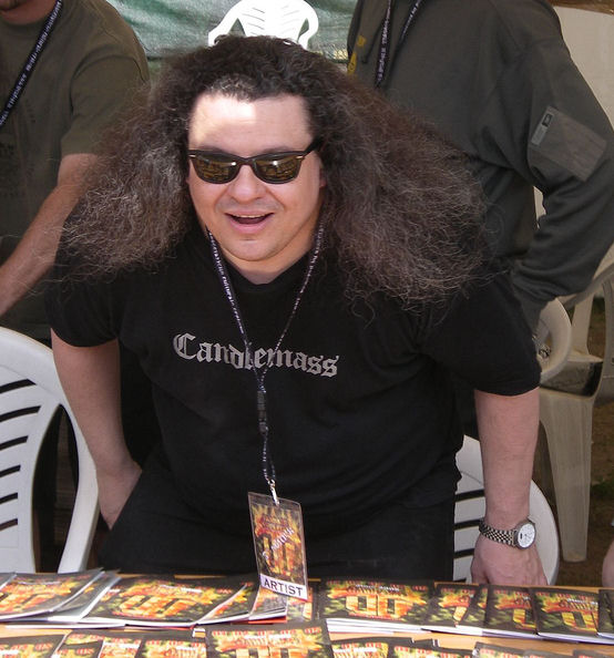 Messiah Marcolin, vocalist of Swedish Heavy metal band Candlemass